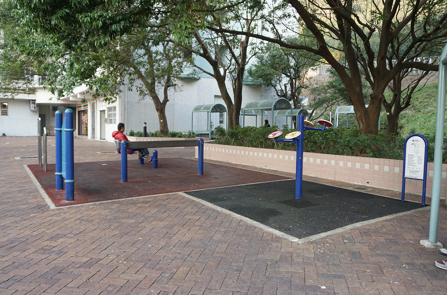 Choi Fai Estate in Ngau Chi Wan, Hong Kong.